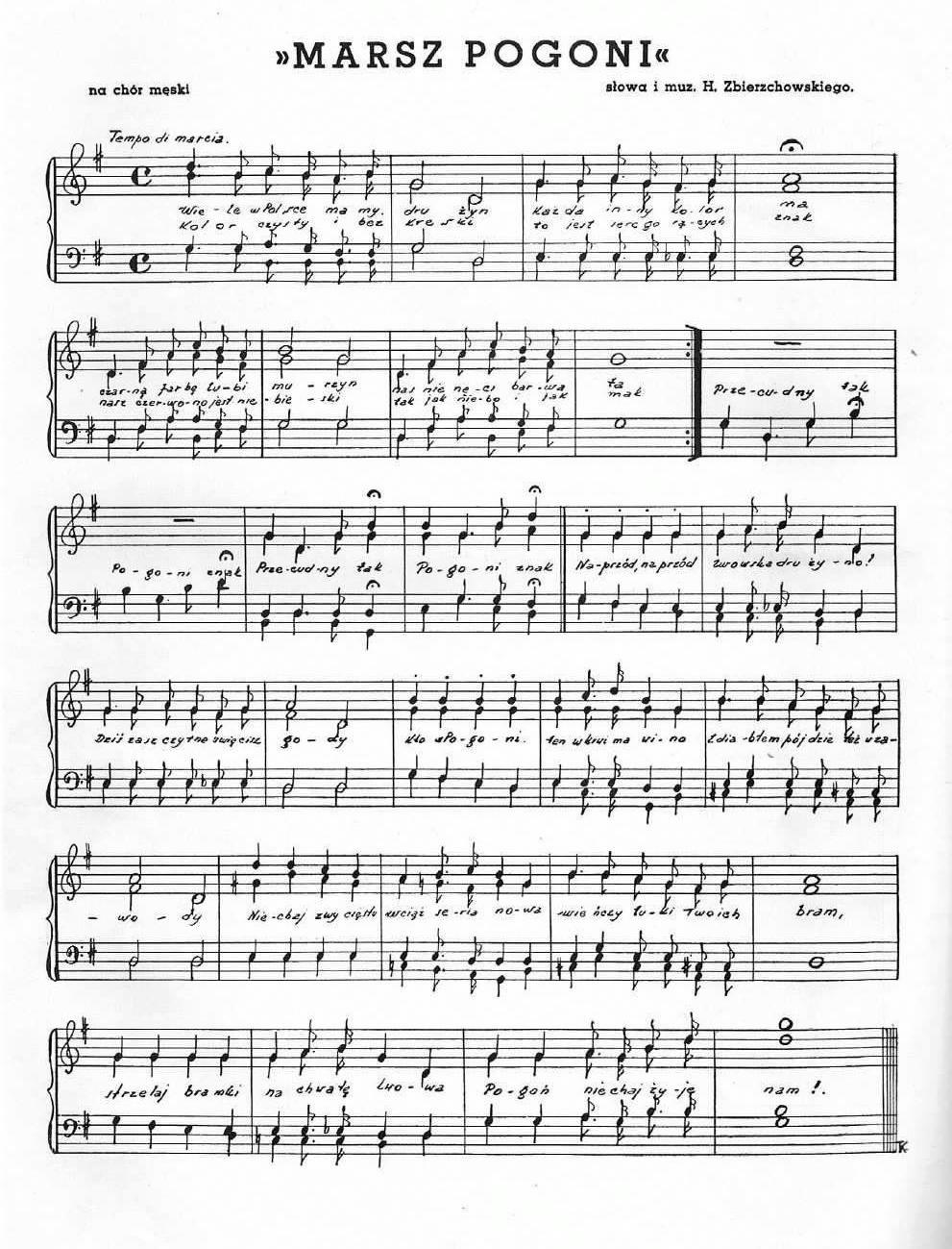 Marsz Pogoni (Pogoń's March) - anthem of polish sports club Pogoń Lwów